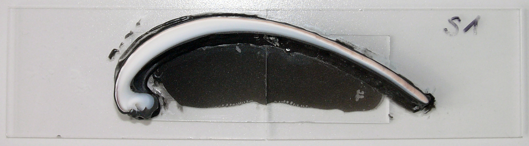 Tools and shell samples for palaeoclimate reconstructions Arctica islandica from the North Sea, prepared for investigation of growth bands